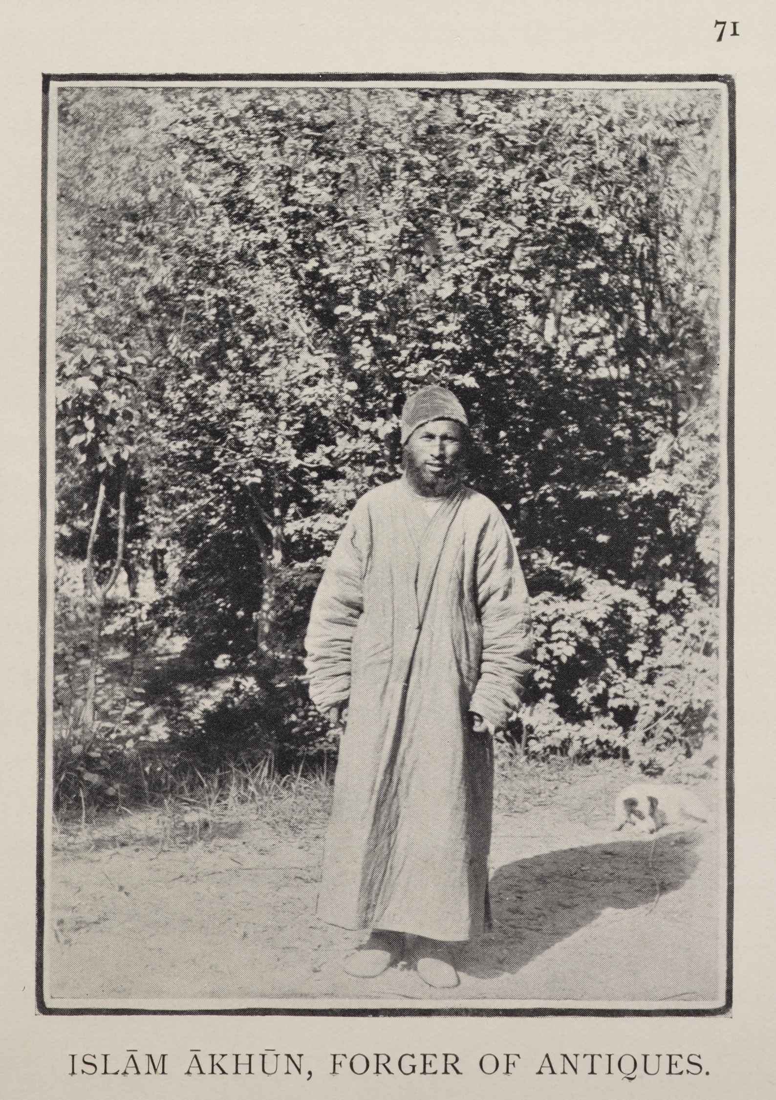 Islam Akhun, forger of manuscripts, 1901.